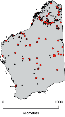 Map based on Australian Bureau of Statistics data of Western Australia's discrete indigenous communities by usual population for 2006. Legend: Large red dot: 500 people or more Medium red dot: 200 to 499 Small red dot: 50 to 199 Small back dot: less than 50 people